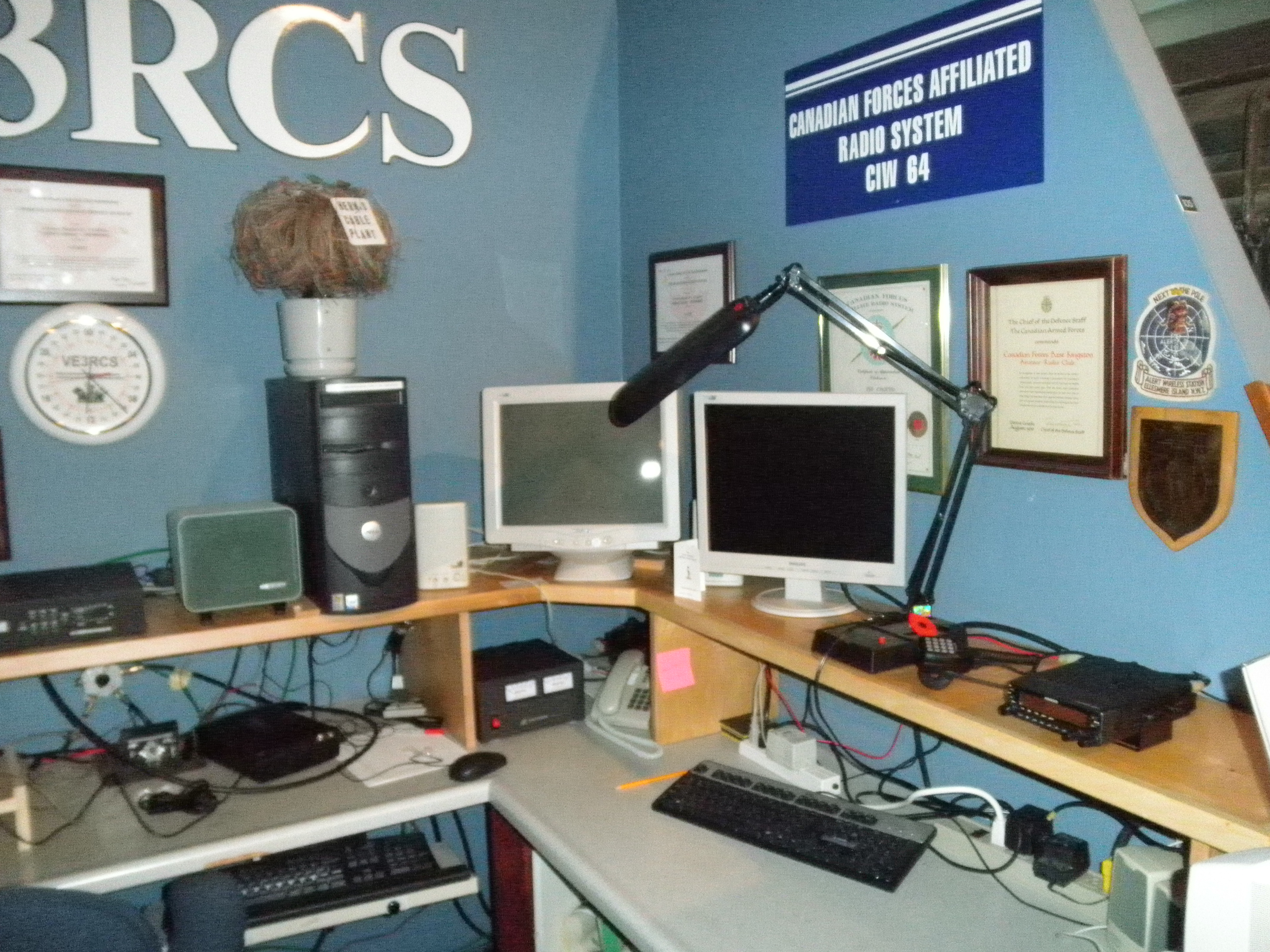 The Canadian Forces Affiliate Radio System was established in 1946 to connect deployed soldiers with loved ones at home, as well as providing a means of civil emergency backup communication. CFARS deploys volunteer operators and equipment from the radioamateur service but uses its own callsigns and frequencies. Depicted is CIW 64, a CFARS gateway located at the Military Communications and Electronics Museum at CFB Kingston.